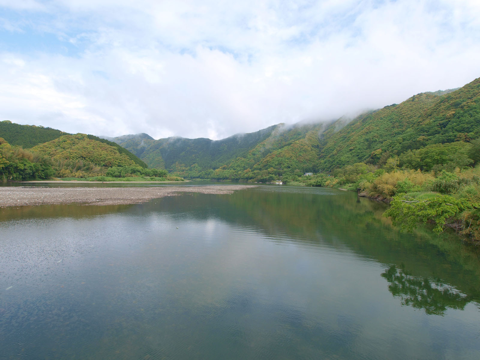 Shimanto river near Sada-chinkabashi, Shimanto-shi, Kochi-ken, Japan